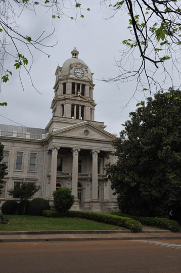 LEFLORE COUNTY COURTHOUSE BUILT IN 1906 IN SECOND RENAISSANCE REVIVAL WITH 2 STORY CENTRAL CLOCK TOWER